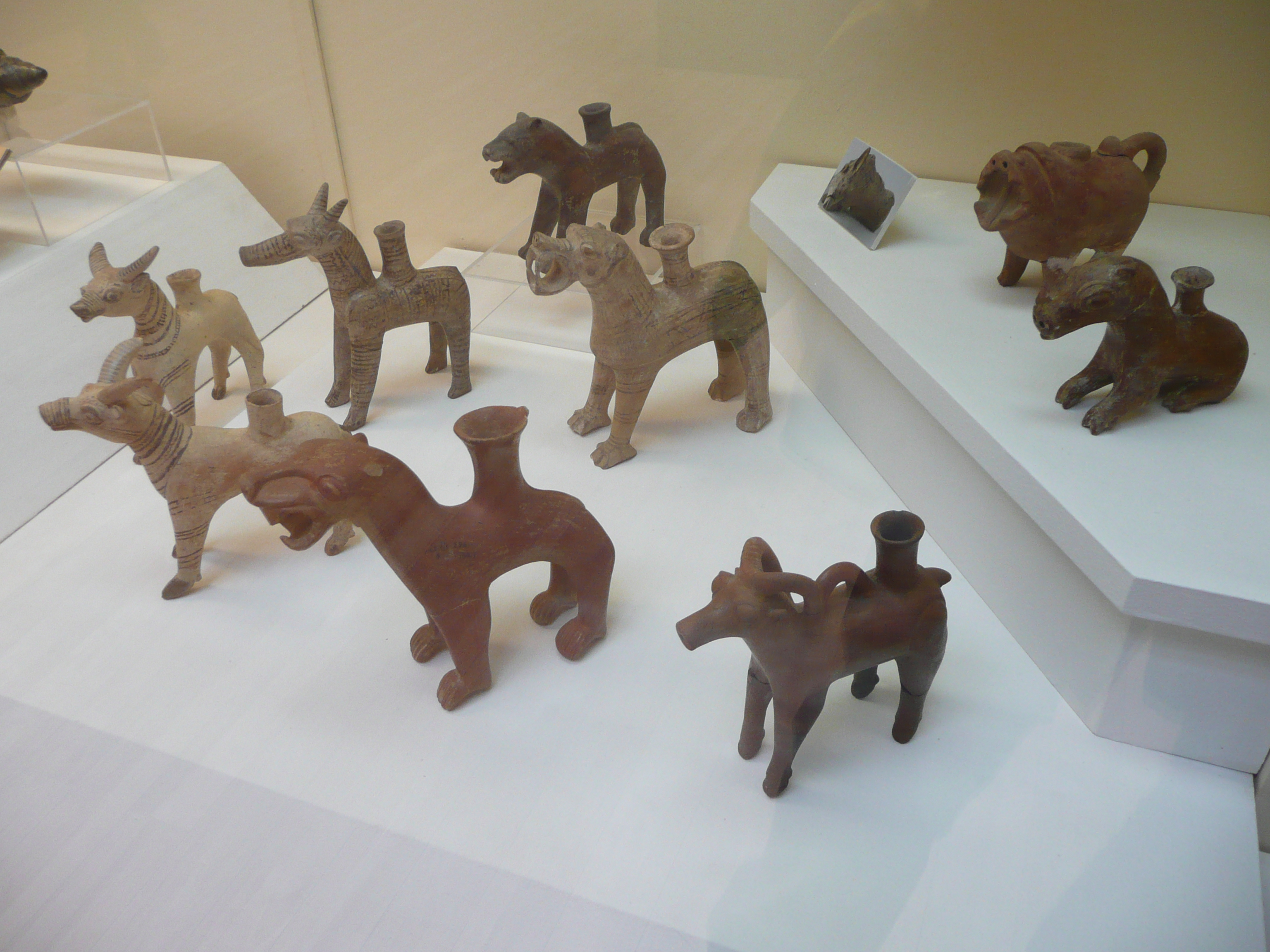 The Museum of Anatolian Civilizations is situated in Ankara, Turkey. It is one of the leading museums in the world for its unique collection of the ancient history of Anatolia.